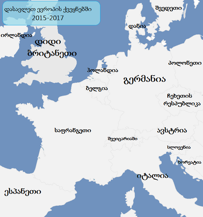 Western Europe map